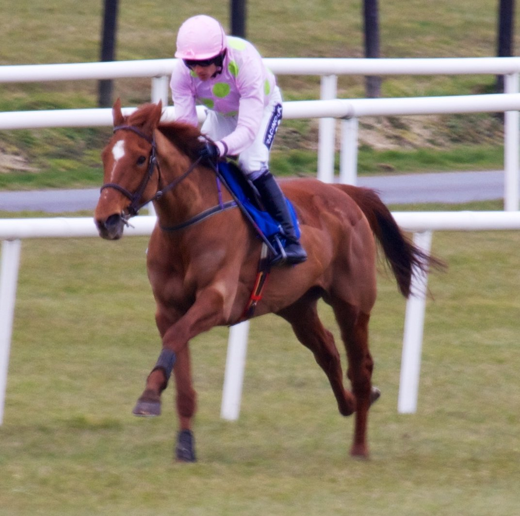 Annie Power and Ruby Walsh come clear of Glens Melody and Davey Casey in 2nd